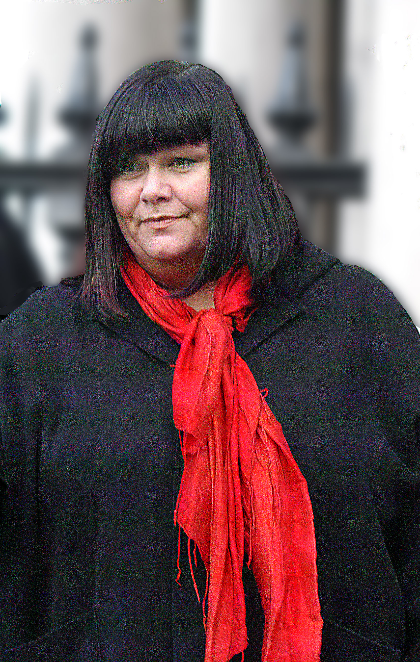 Dawn French at the "Make Poverty History" march